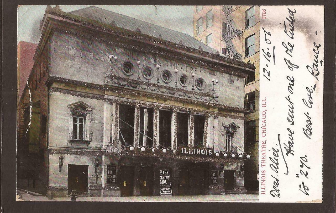 Postcard of a production of The Casino Girl at the Illinois Theatre in Chicago c1906